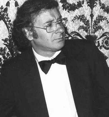 Steve Landesberg at the National Film Society Convention (cropped)